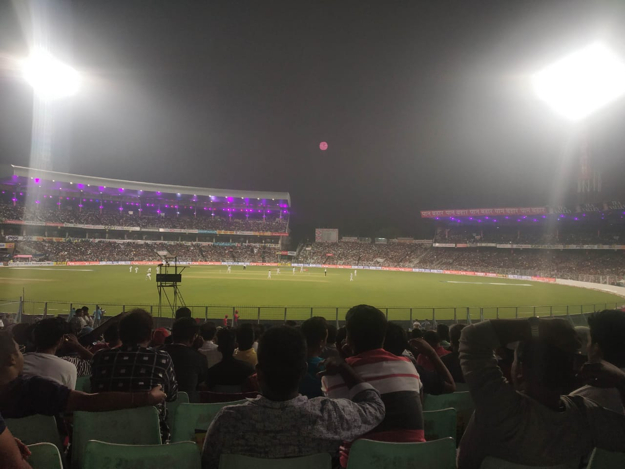 This image was captured on Day 1 during the first ever Day/Night test match in India, held at Eden Gardens from 22 to 26 November 2019